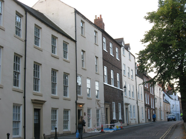 St Chad's college, Durham What looks like an unrelated row of houses in fact comprises this college. The solitary light over a door marks the main entrance.